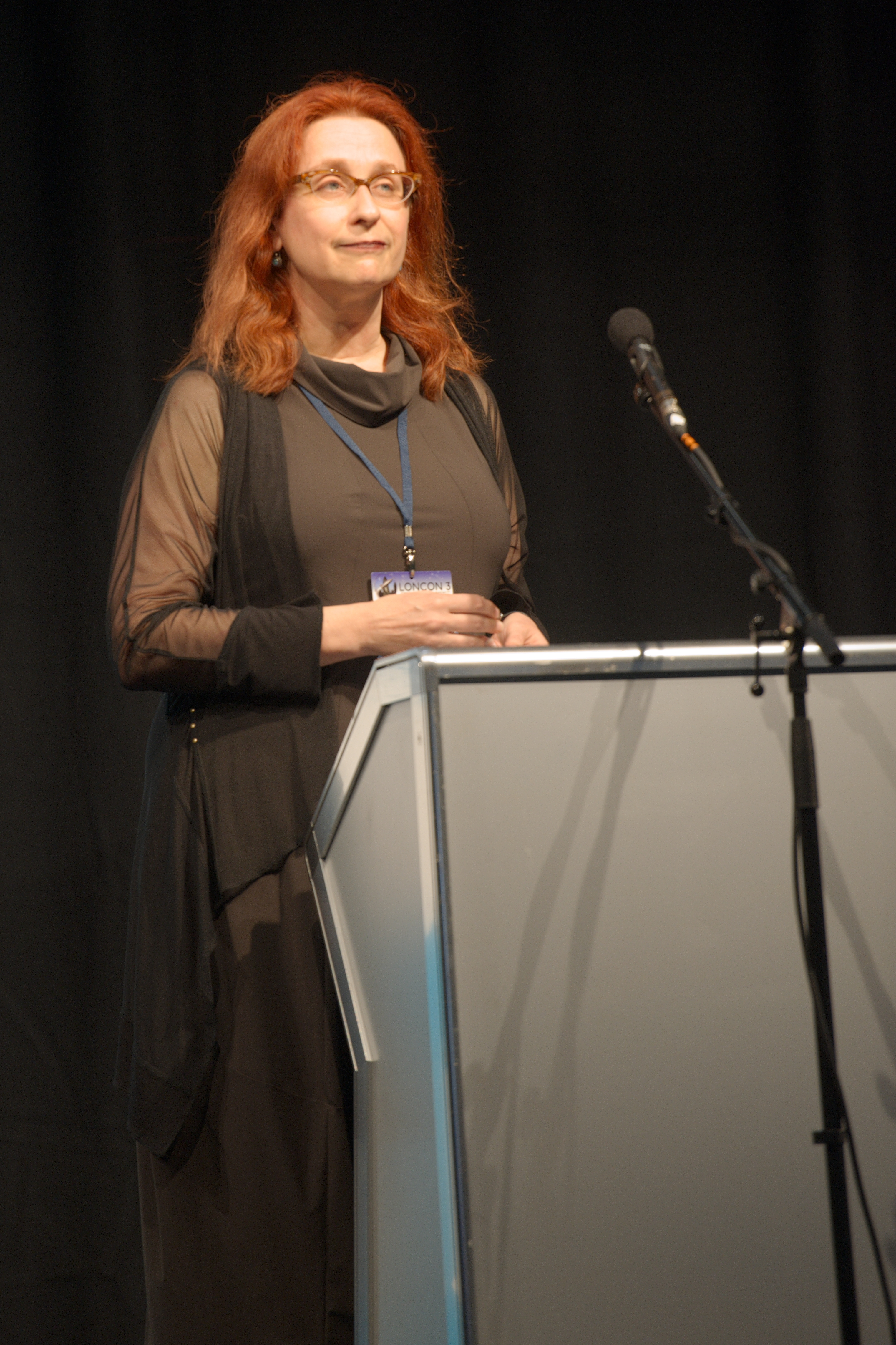 Audrey Niffenegger delivering the inaugural PEN/H.G. Wells lecture at Loncon, Worldcon 2014.